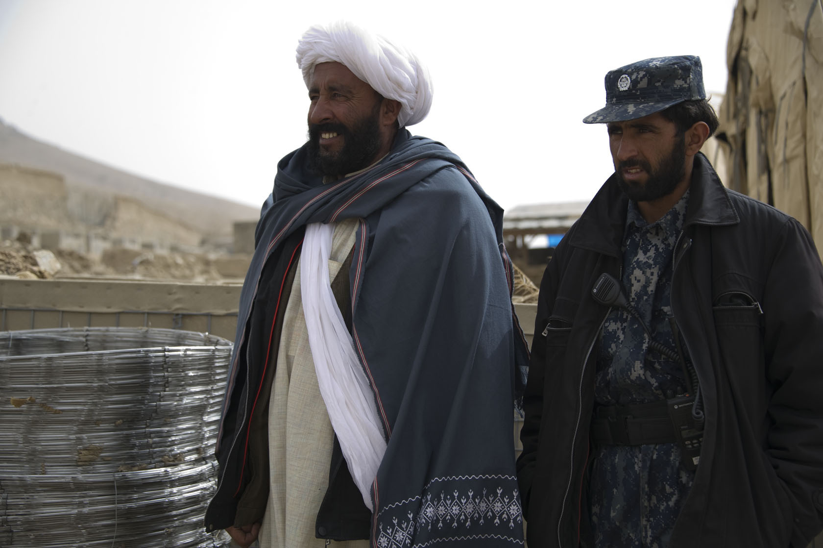 Abdul Samad, left, a recently reintegrated Taliban commander, and Afghan policeman Nic Mohammed, the commander of the Afghan Local Police in Khas Uruzgan, inventory supplies in Khas Uruzgan district, Uruzgan province, Afghanistan, March 4, 2012. Mohammed, along with other district government and security officials, met with Samad to provide him with supplies for his village as part of the Afghanistan Peace and Reintegration Program, a nationwide program that provides insurgents with an opportunity to peacefully and permanently rejoin their communities with honor, dignity and forgiveness.